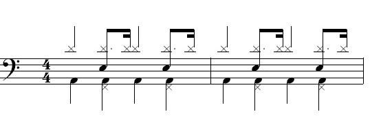 drum beat. 4beat. example.